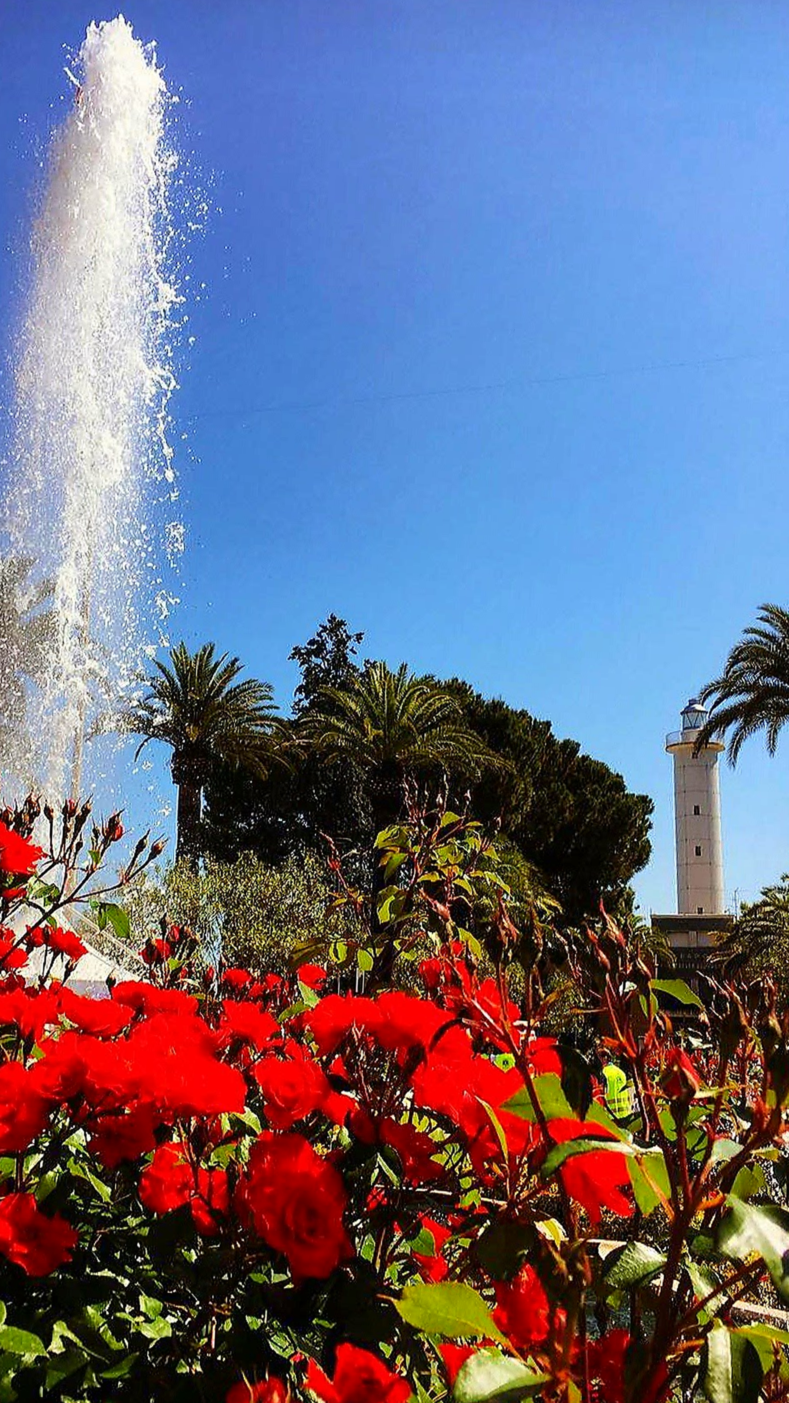 San Benedetto del Tronto,the Giorgini round fountain and the lighthouse